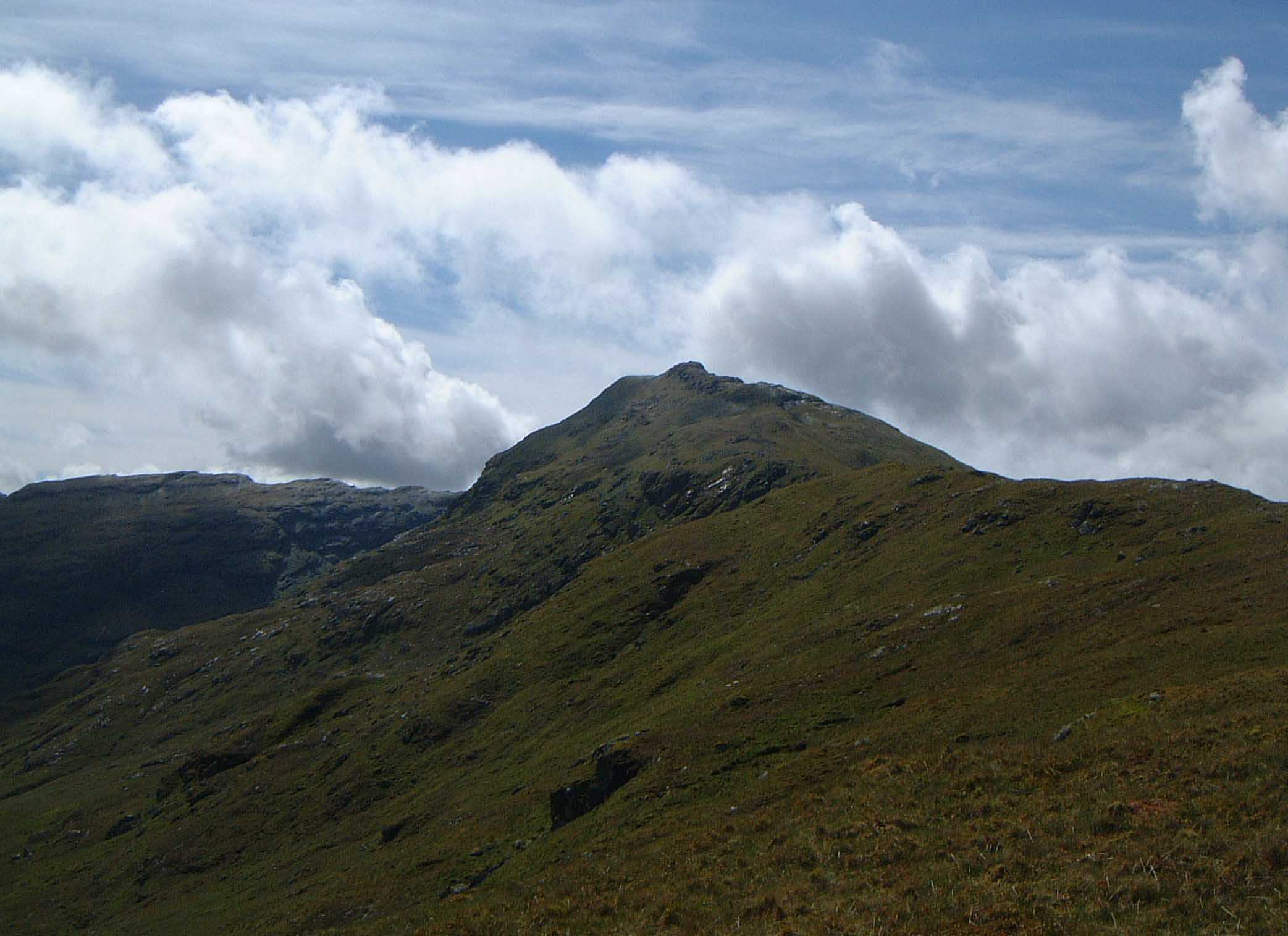 Personal picture taken by Mick Knapton